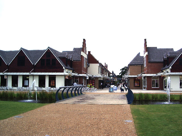 Springfields Factory Outlet and Festival Gardens. Springfields in Spalding is home to over 40 outlet stores selling famous named brands in fashion and home at great discounts all year round. Also don‘t miss the beautiful landscaped festival gardens.